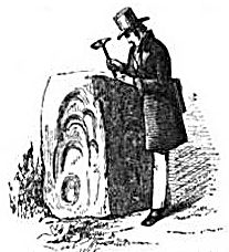 uploaded from out-of-copyright journal (Mems Geol Soc 1846)